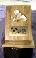 Picture I took of the new Magnolia Bowl trophy given to the winner of the Ole Miss/LSU annual college football game.